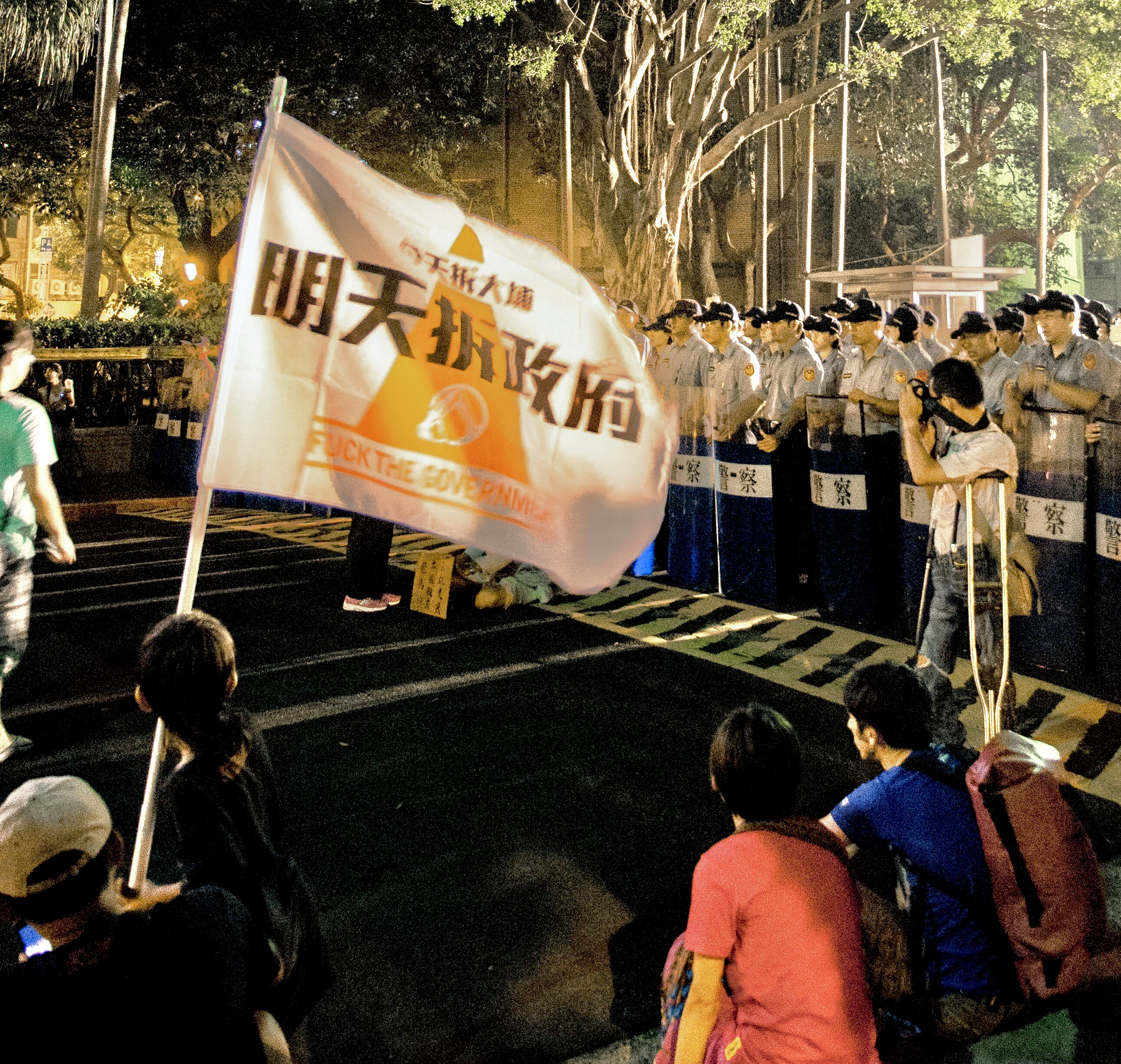 "The government pull down People's House today; People will pull down the government tomorrow!"